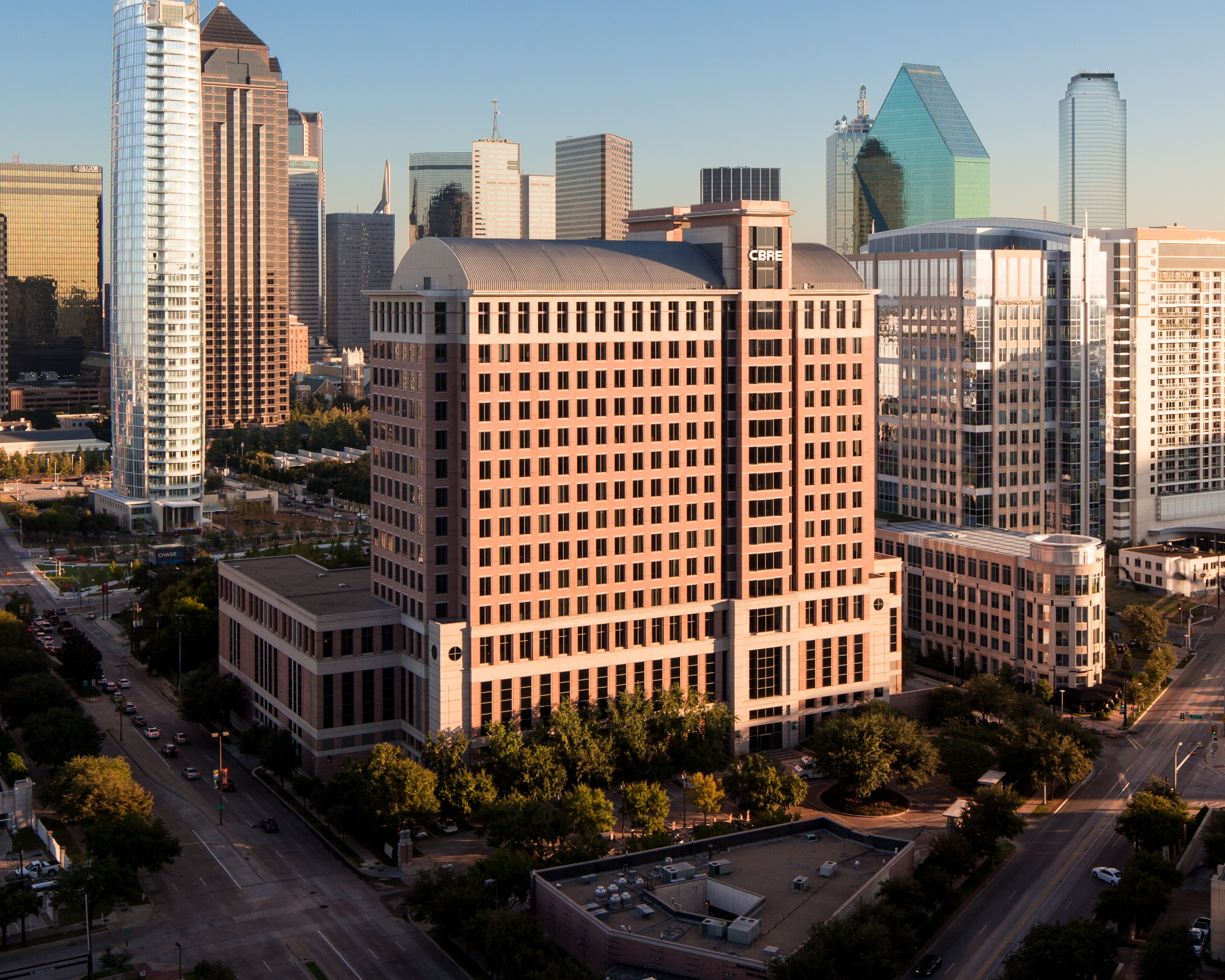 Trammell Crow Company Headquarters - 2100 McKinney Avenue, Dallas, TX 75071